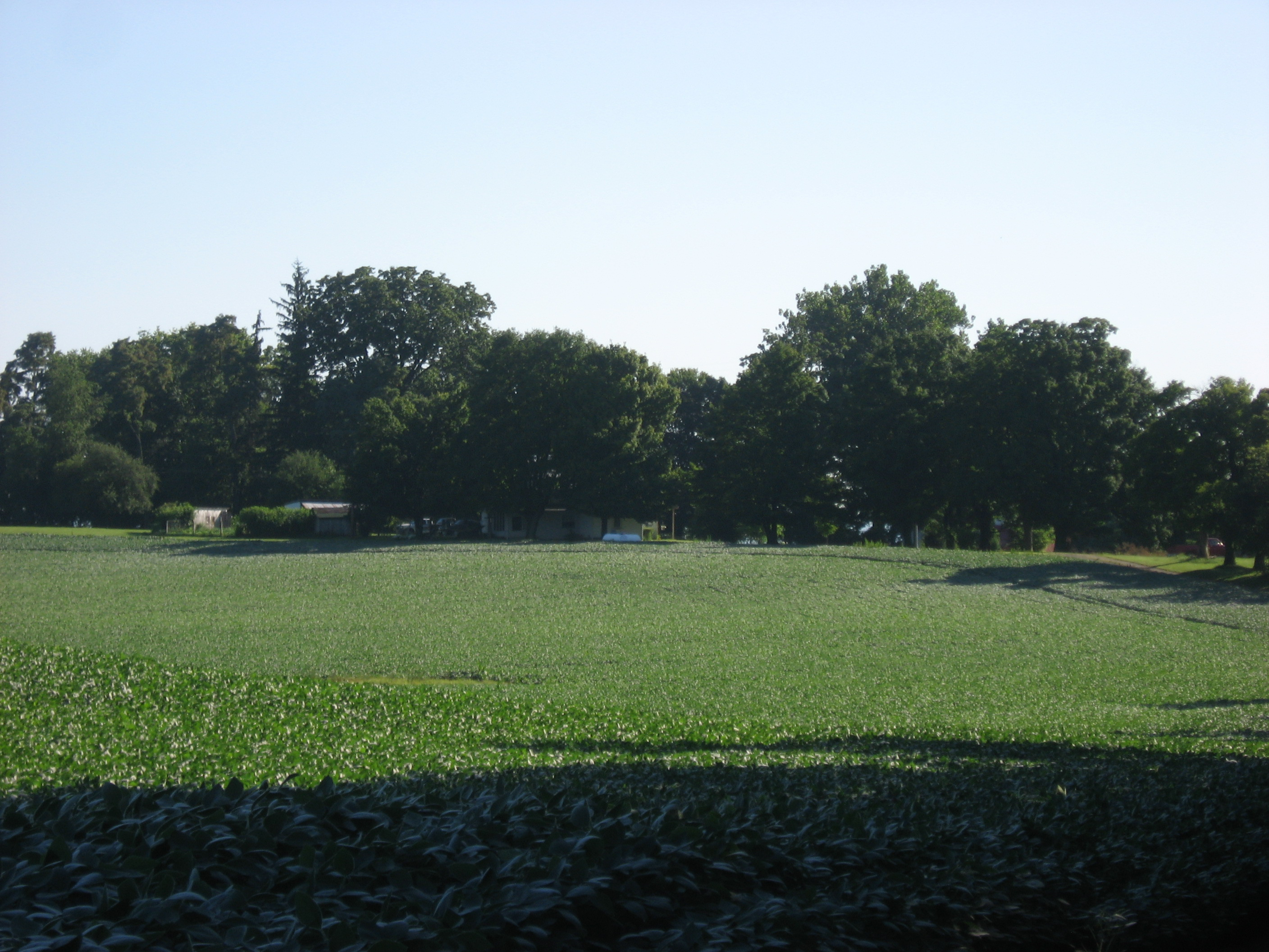 Buildings at Applethorpe Farm, located at 292 Whissler Road north of Hallsville in Colerain Township, Ross County, Ohio, United States. The farm complex is listed on the National Register of Historic Places.